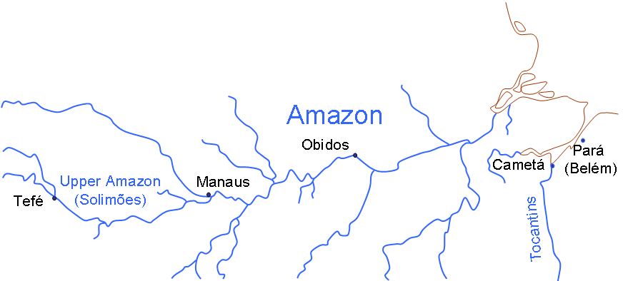 Sketch map of places where Henry Walter Bates worked on his eleven years as The Naturalist on the River Amazons (1863).